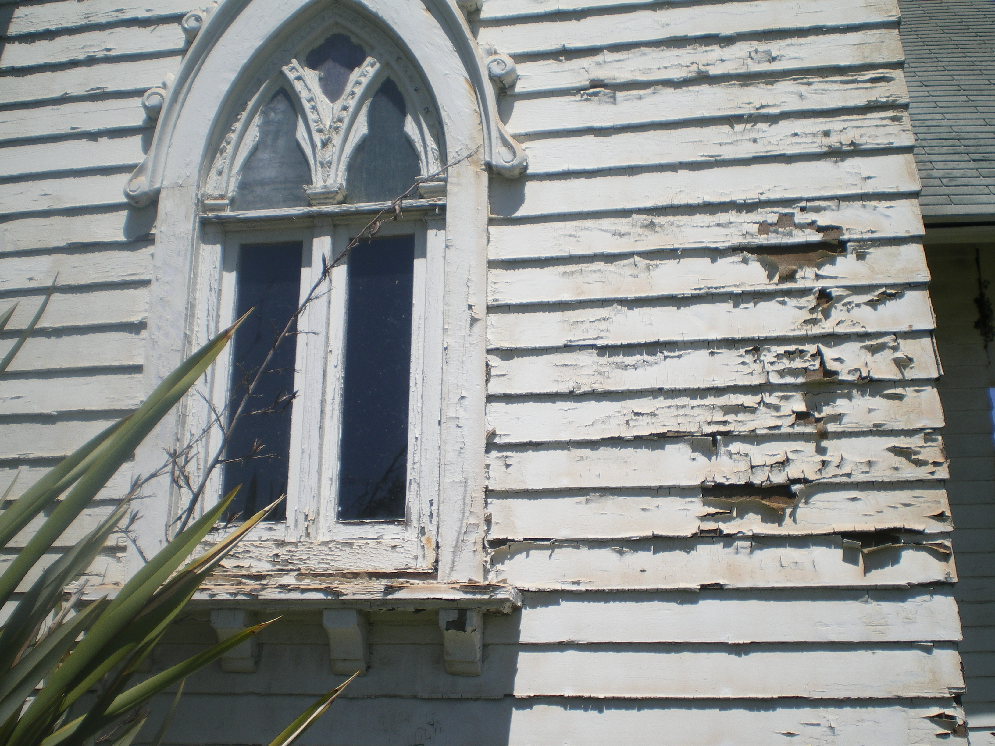 Closeup of Deterioration at Wadsorth Chapel, West Los Angeles Veterans Center, Los Angeles, California